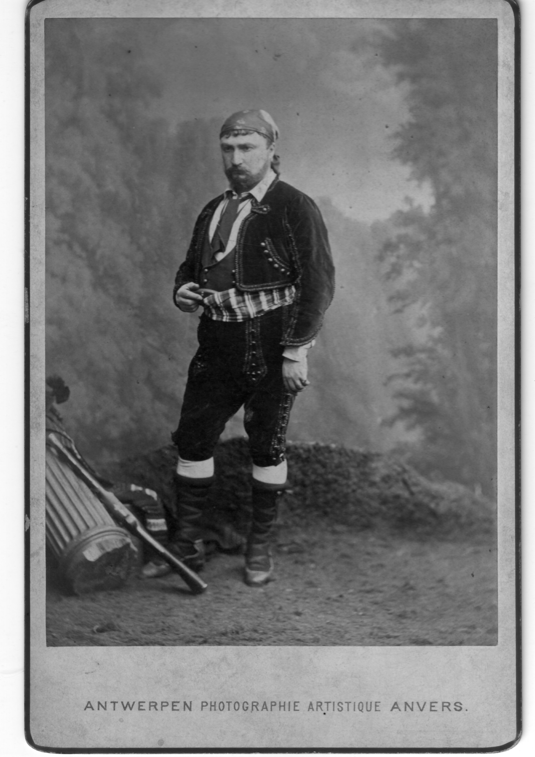 Ulysse Toussaint, french ténor (1839-1919) stage name: du Wast ou Duwast in stage costume in Antwerp (B)